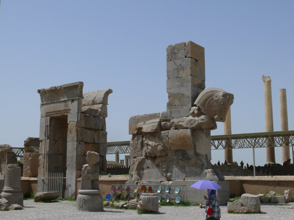 Bull statue, gate of the northern portico of the 100 columns palace, Persepolis, Iran